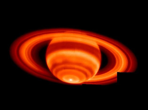 This is the sharpest image of Saturn's temperature emissions taken from the ground; it is a mosaic of 35 individual exposures made at the W.M. Keck I Observatory, Mauna Kea, Hawaii on Feb. 4, 2004. The images to create this mosaic were taken with infrared radiation. The black square at 4 o'clock represents missing data.